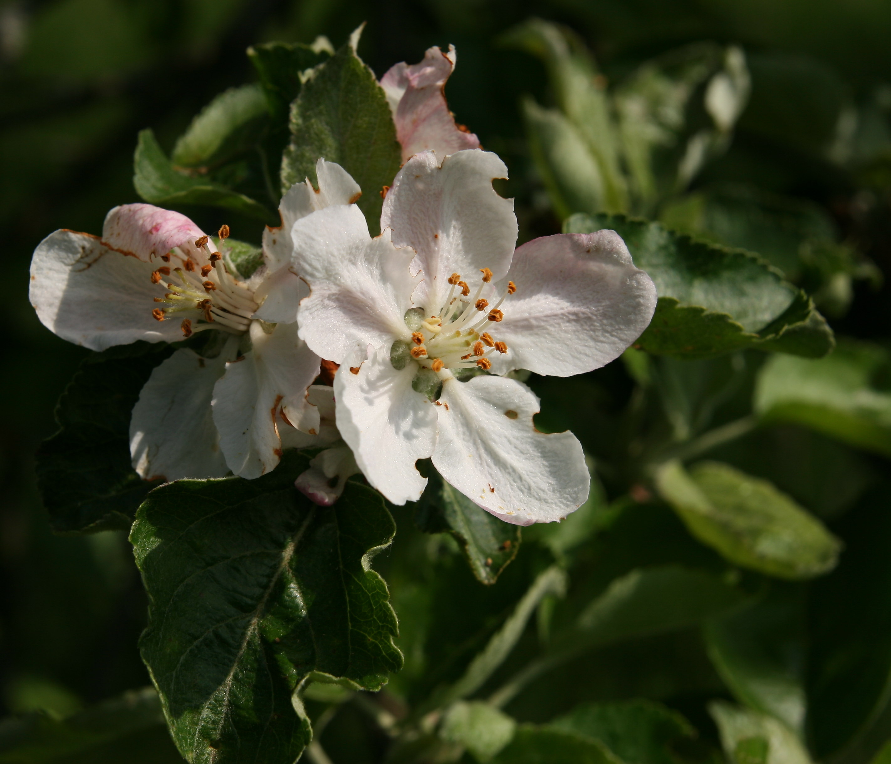 Blossom of the apple variety Rheinischer Winterrambur